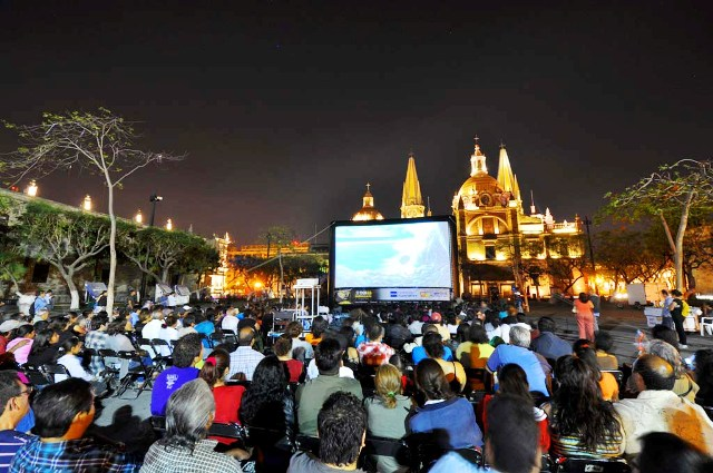 inflatable movie screen in Mexico